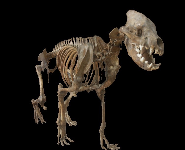 Skeleton of a cave hyena from the Muséum national d'histoire naturelle